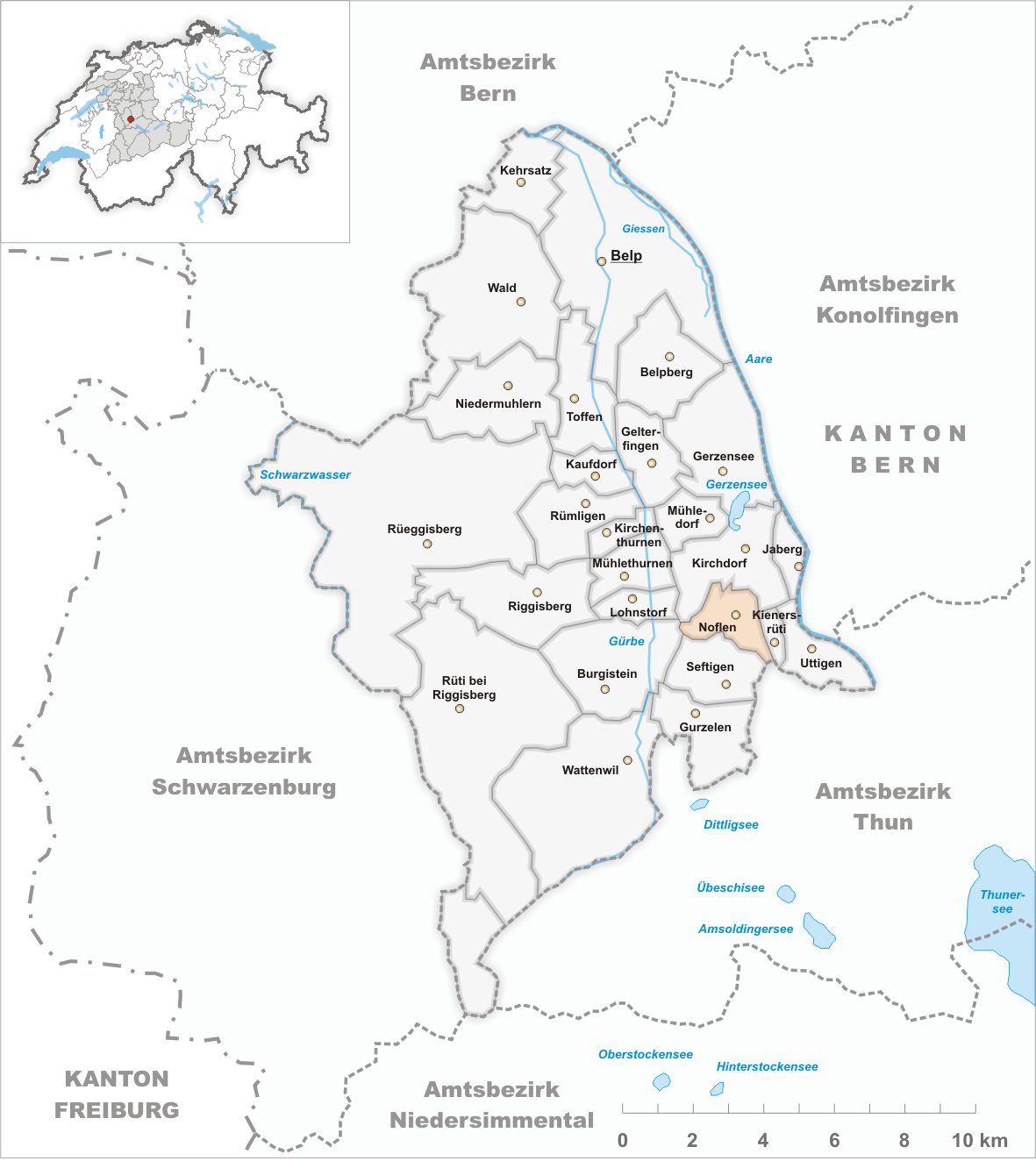 Municipality Noflen